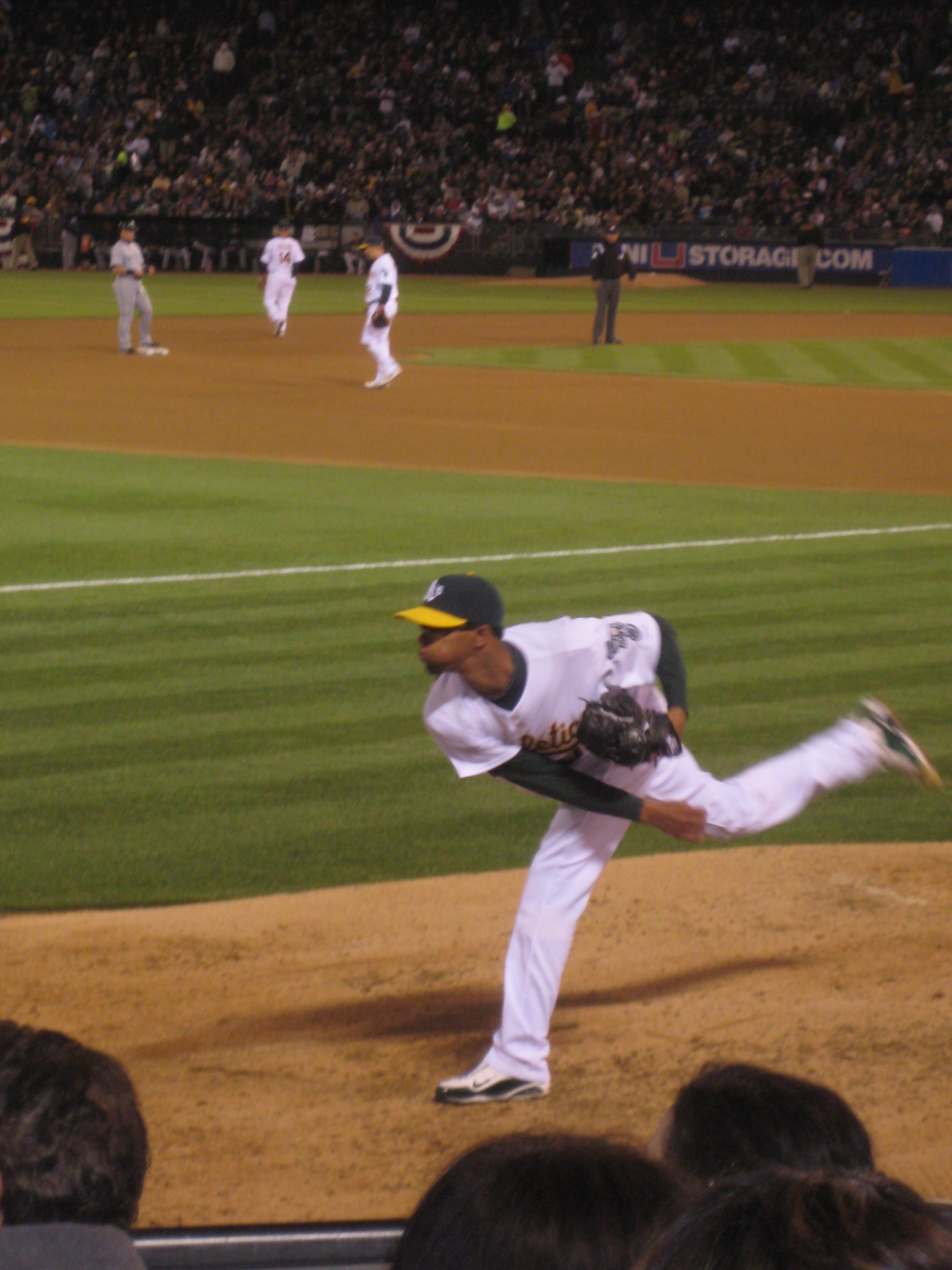 Edwar Ramírez warming up in the bullpen for the Oakland Athletics